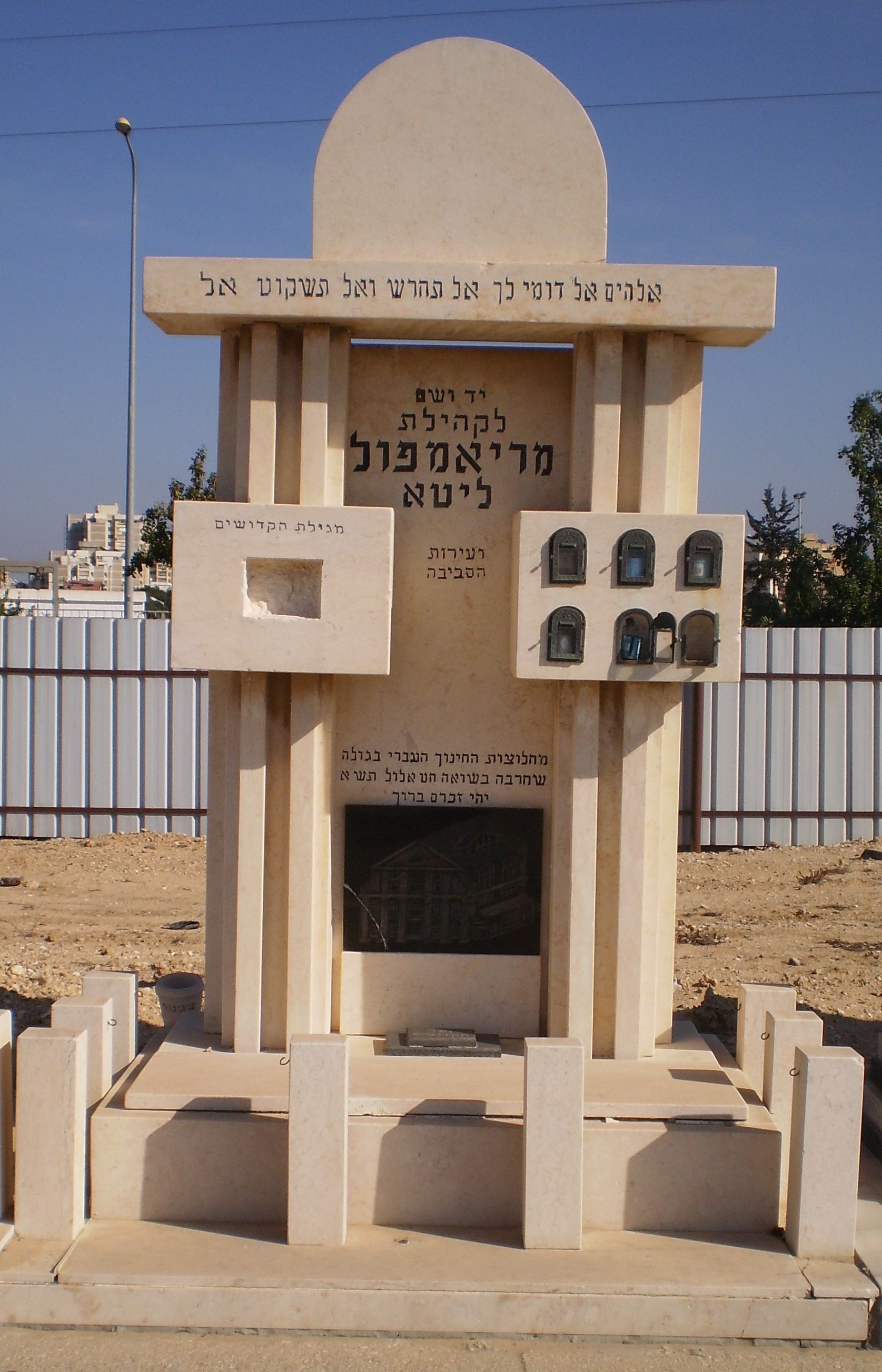 Marijampolė Jewery Holocaust memorial at Holon Cemetery